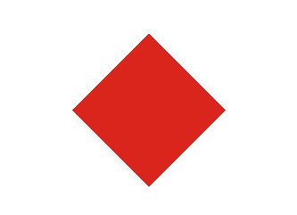 III Corps, Army of the Potomac, 1st Division Badge